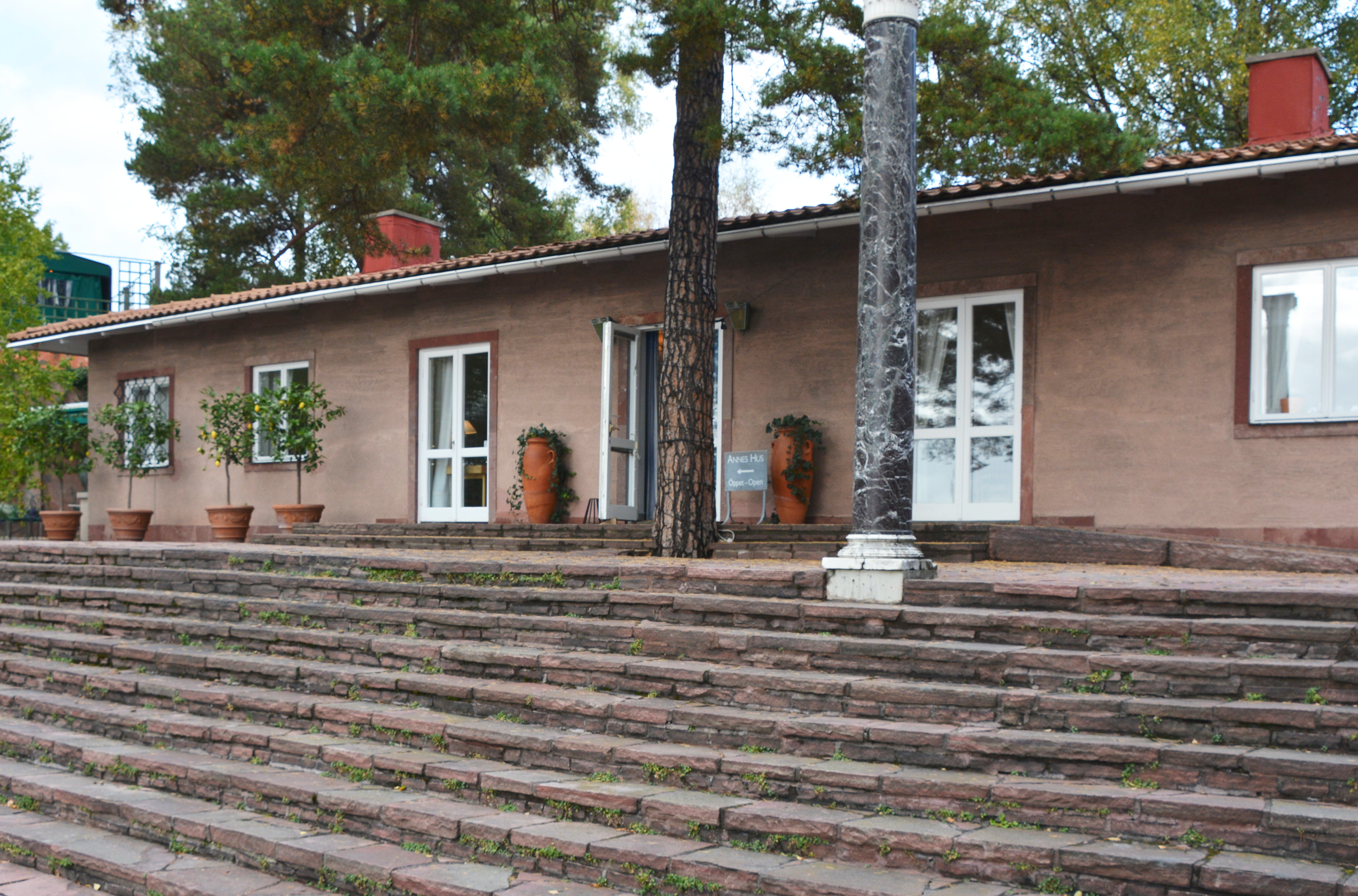 Anne's house, MIllesgården